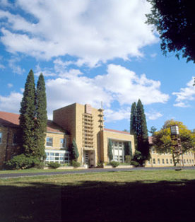 Located in Northeast Pennsylvania, Main Building of the Himalayan Institute's Headquarters and Campus